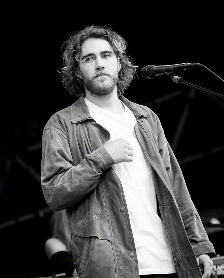 Matt Corby performs at Piknik i Parken in Oslo on 24. June 2016.